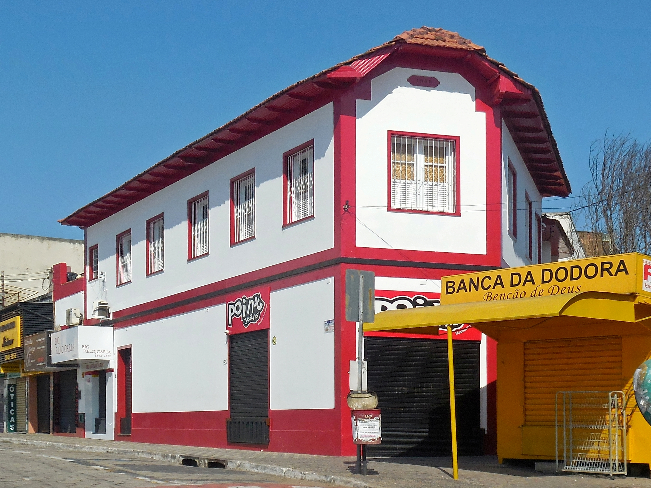 The "Sobrado dos Pereira" (Pereira´s House), in Coronel Fabriciano, Minas Gerais, Brazil.